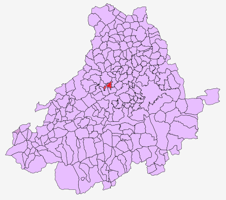 Cillán